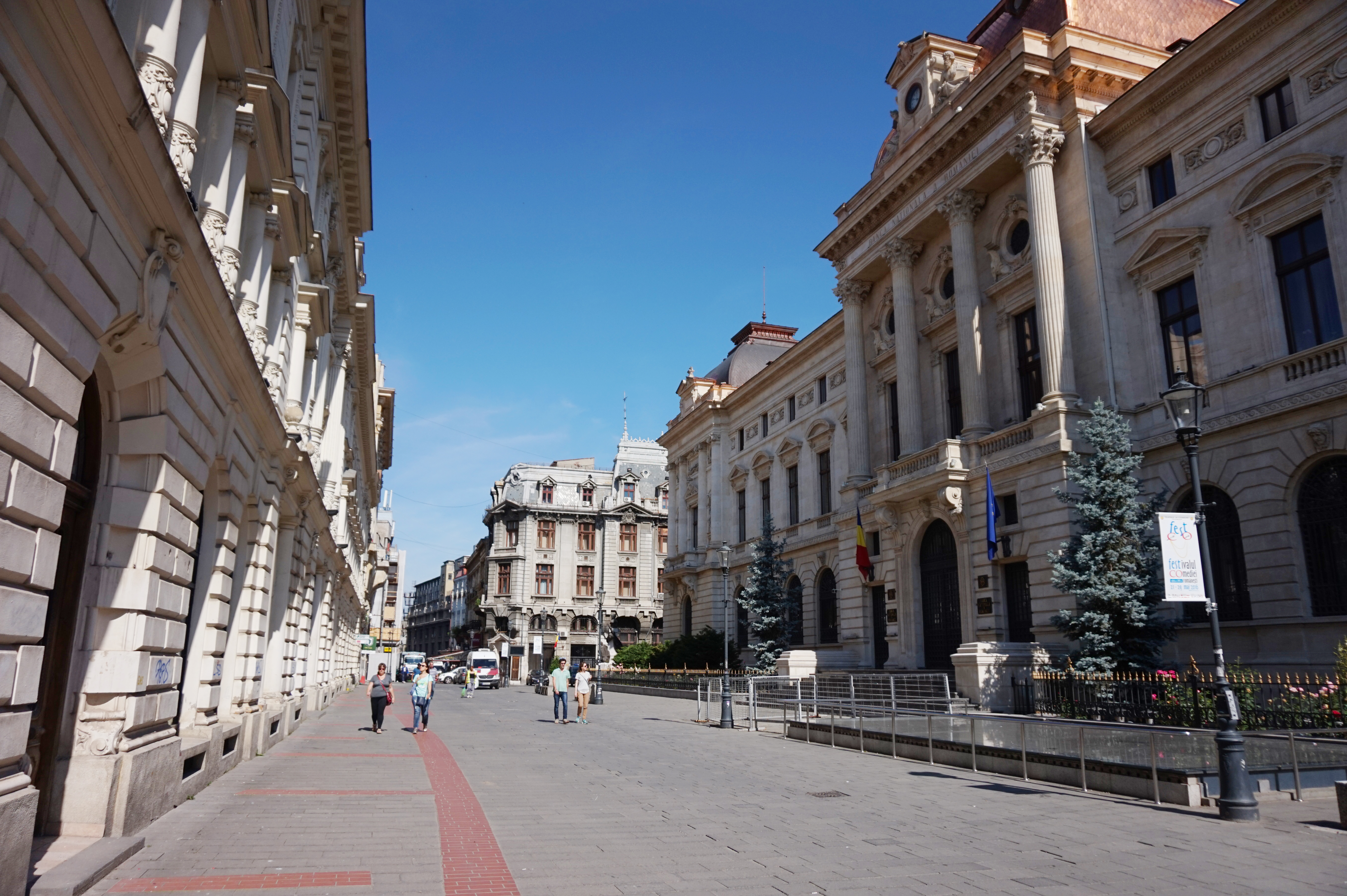 Strada Lipscani in Bucharest Old Town. This photograph was taken with a Sony Alpha a5000.